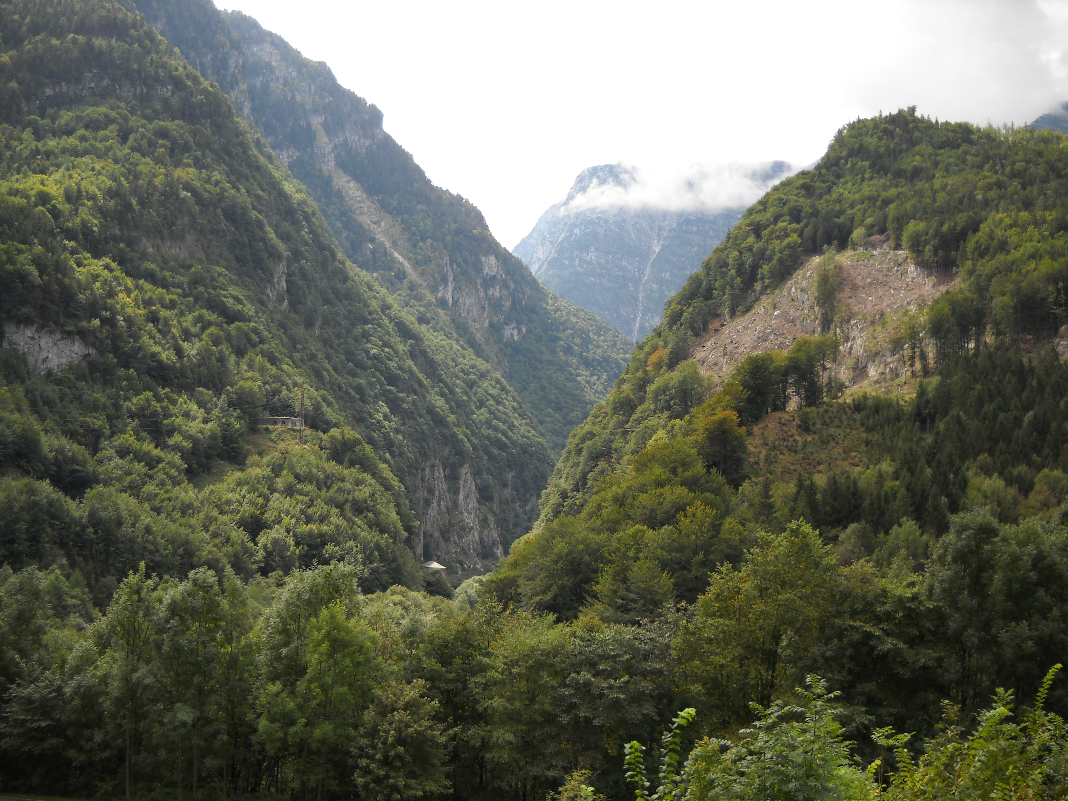 5440 Golling an der Salzach, Austria: View from Pass Lueg heading south.